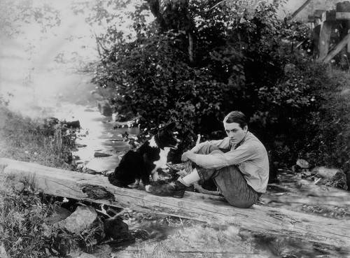 Richard Barthelmess in Tol'able David (1921) - cropped screenshot.